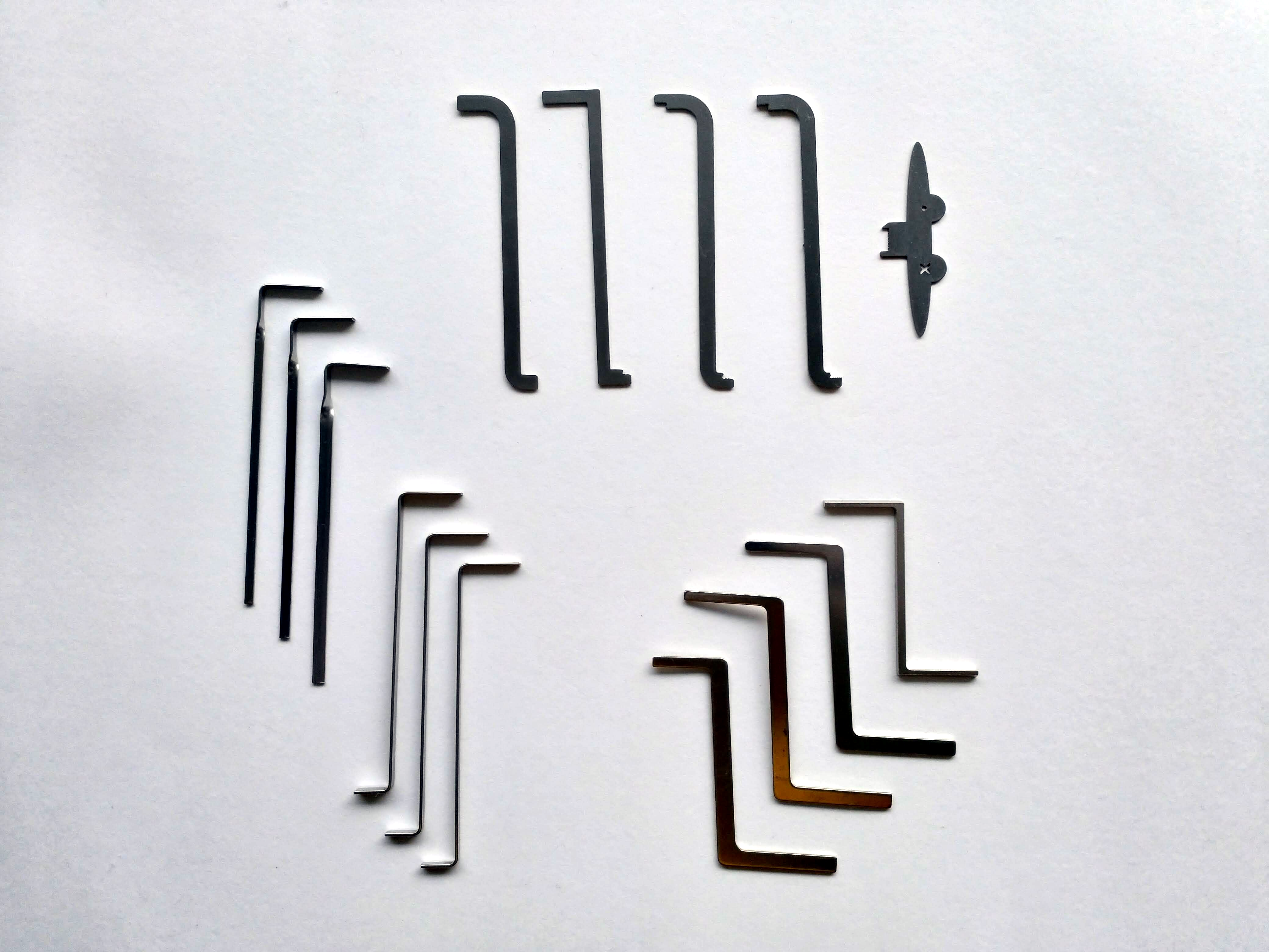 Tension wrenches used in lock picking to tension the core of the lock while picking. From top to bottom, left to right: 1-4. top of the keyway tensioners 5. tubular lock tensioner 6-8. twisted bottom of the keyway tensioners 9-11. bottom of the keyway Z wrenches 12-16 dimple lock tension wrenches